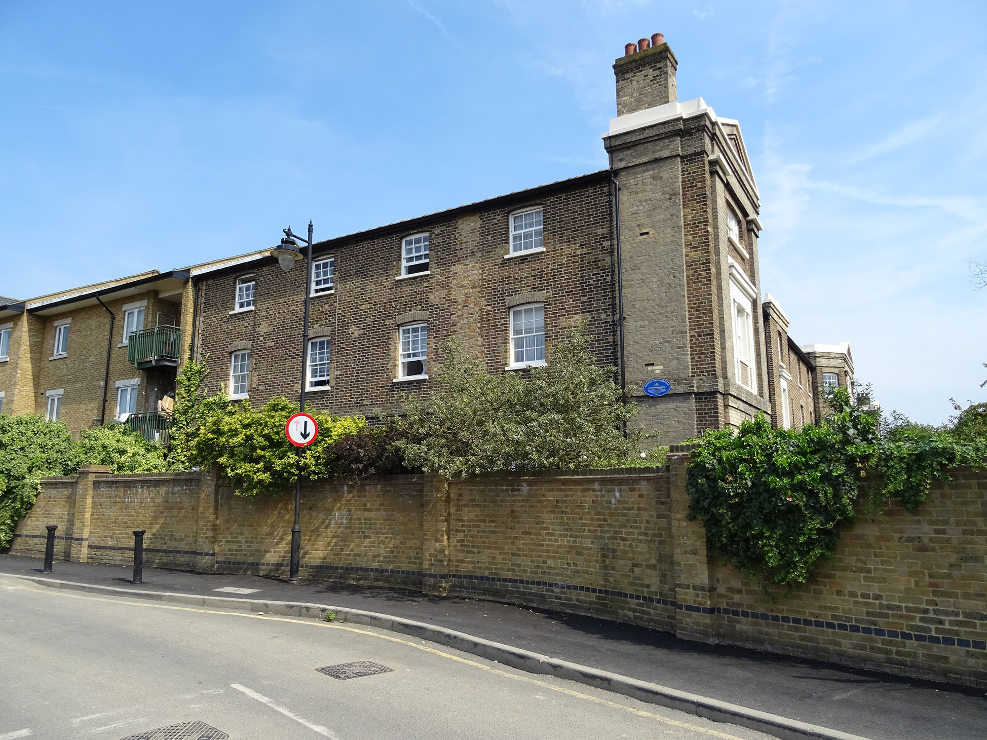 Langthorne Hospital. Grade II Listed building. Erected in 1840 as the West Ham Union Workhouse on land originally owned by Stratford-Langthorne Abbey. Renamed in 1948 - 1 Langthorne Road, Leytonstone E11 4NJ